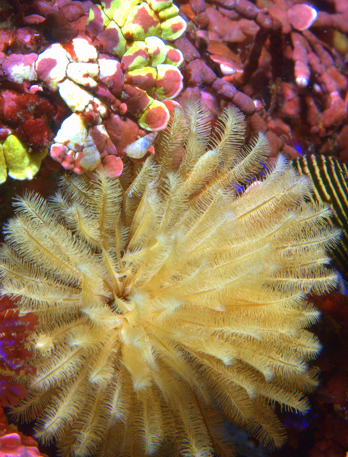 Sabellidae (Feather Duster Worm) - Lingcod Reef, Carmel Bay, California, USA